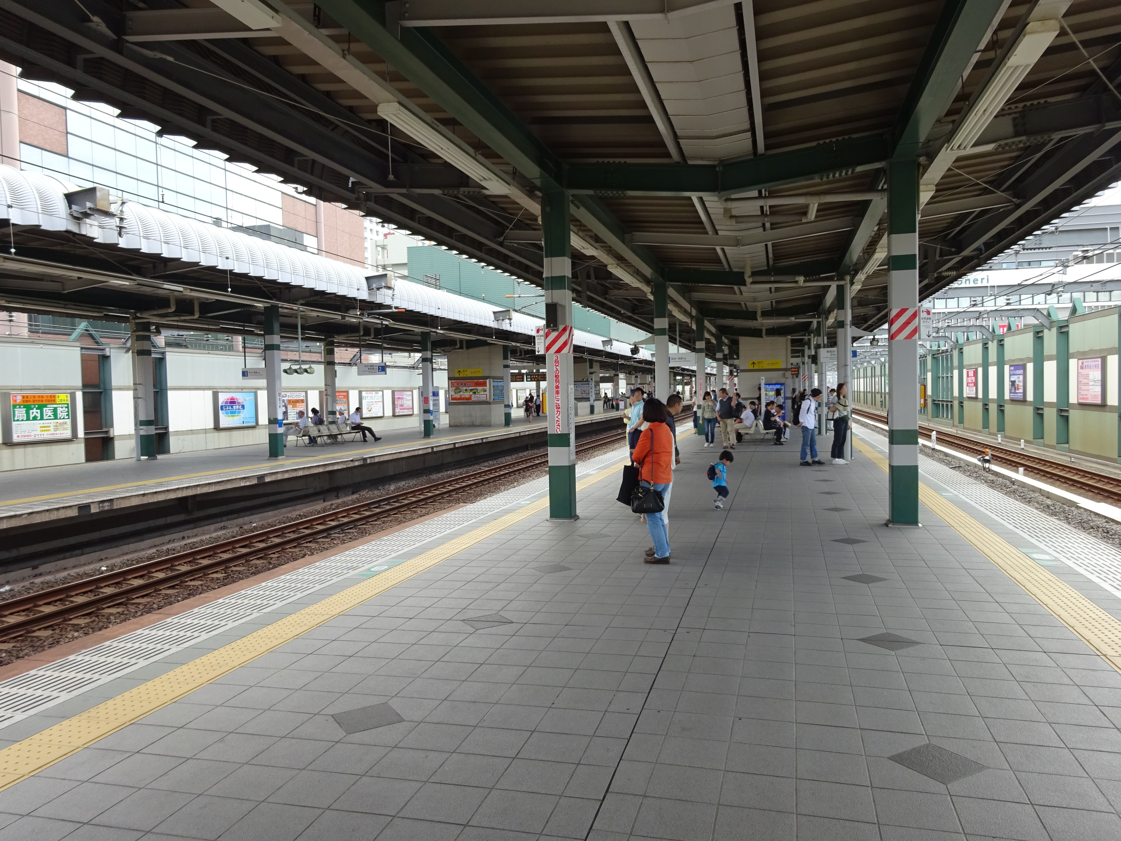 Platforms of Nerima Station(Seibu Railways)